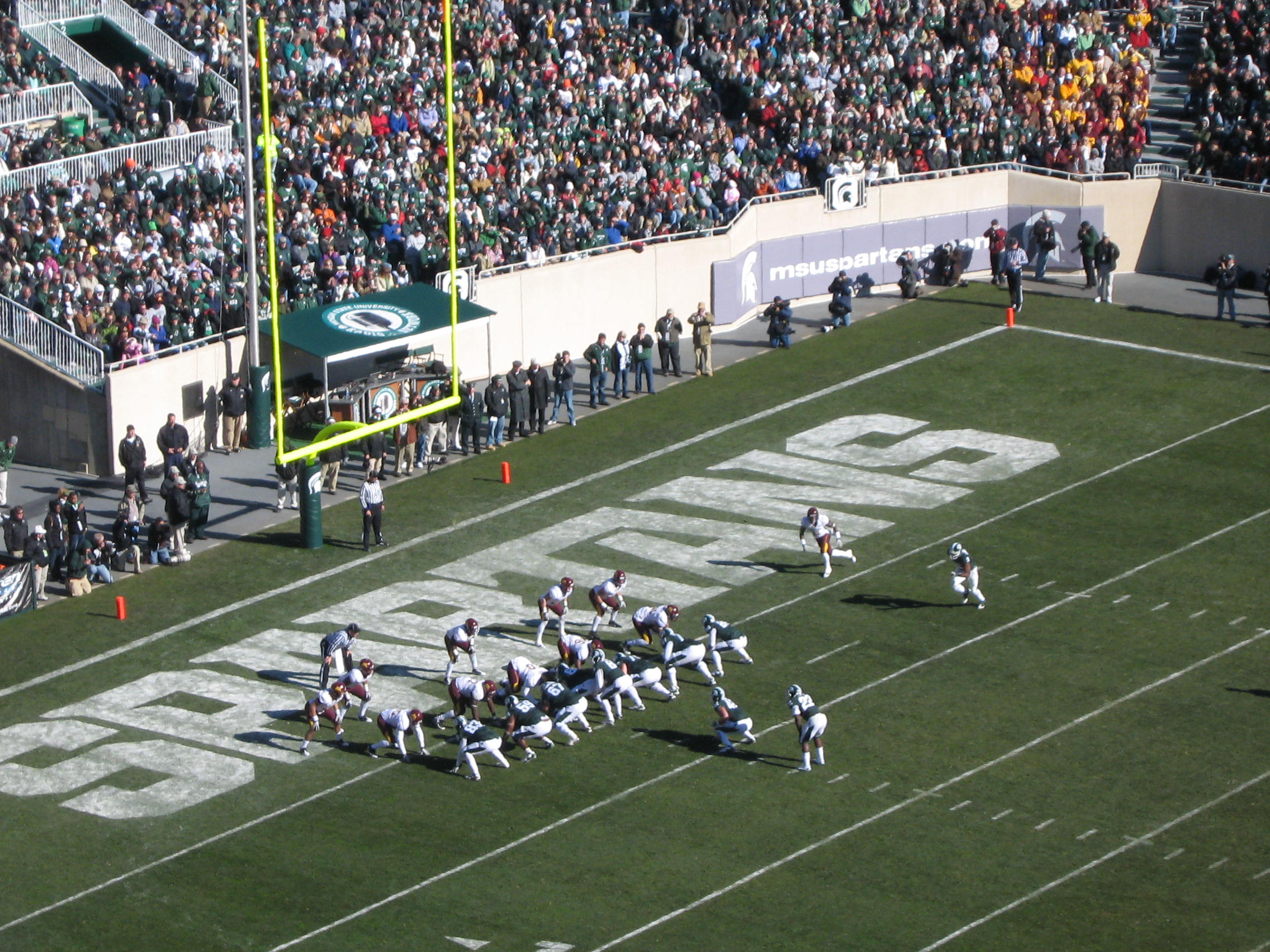 The 2010 Michigan State Spartans football team offense at home competing against the 2010 Minnesota Golden Gophers football team defense